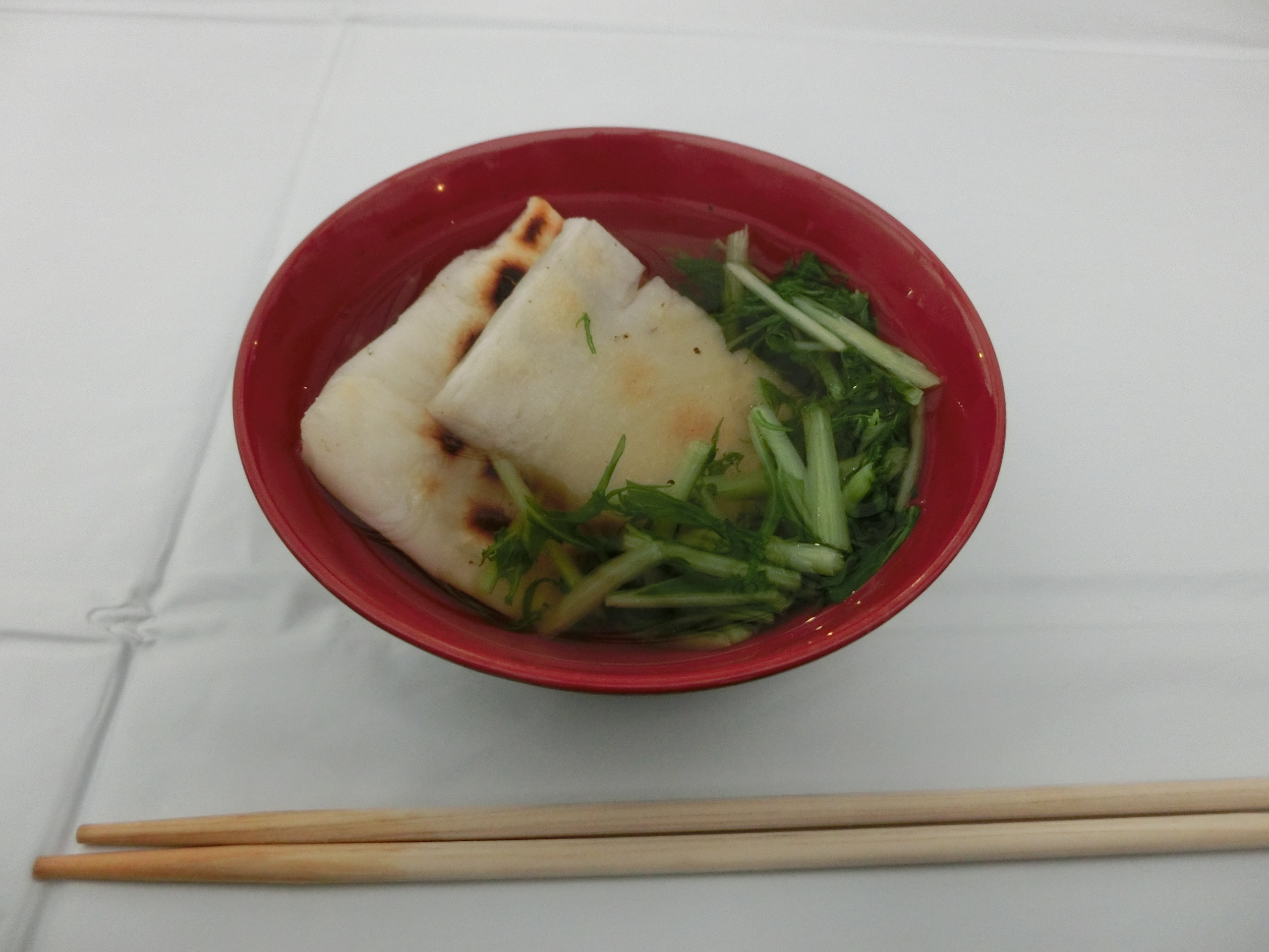 Tenrikyo Zoni